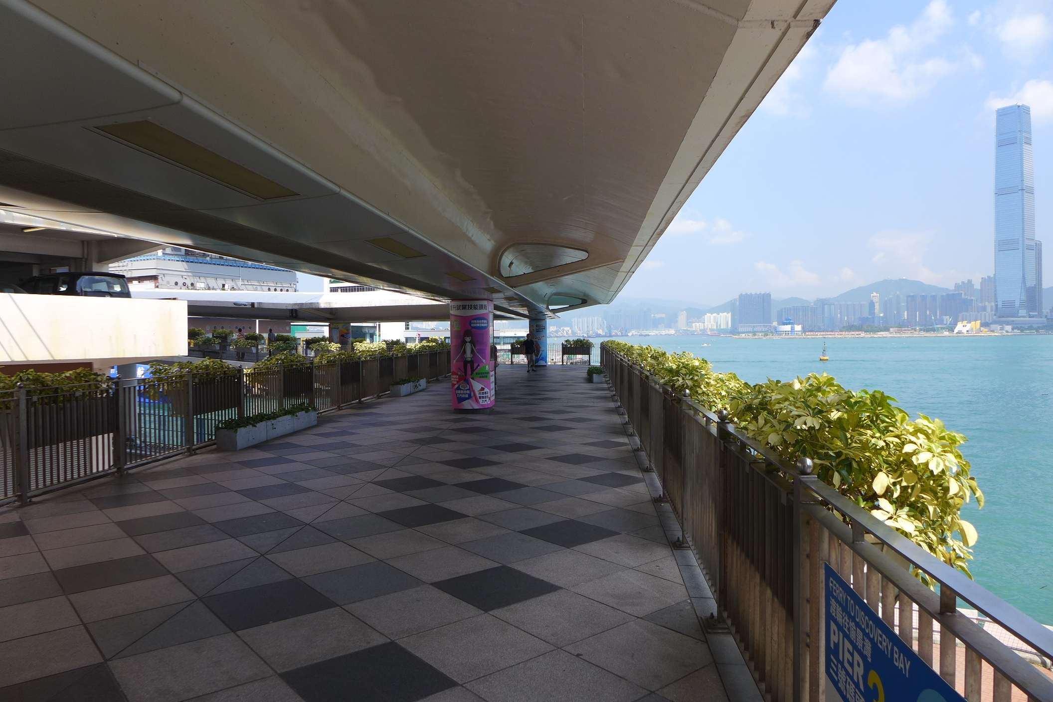 Central Elevated Walkway Sheung Wan Section